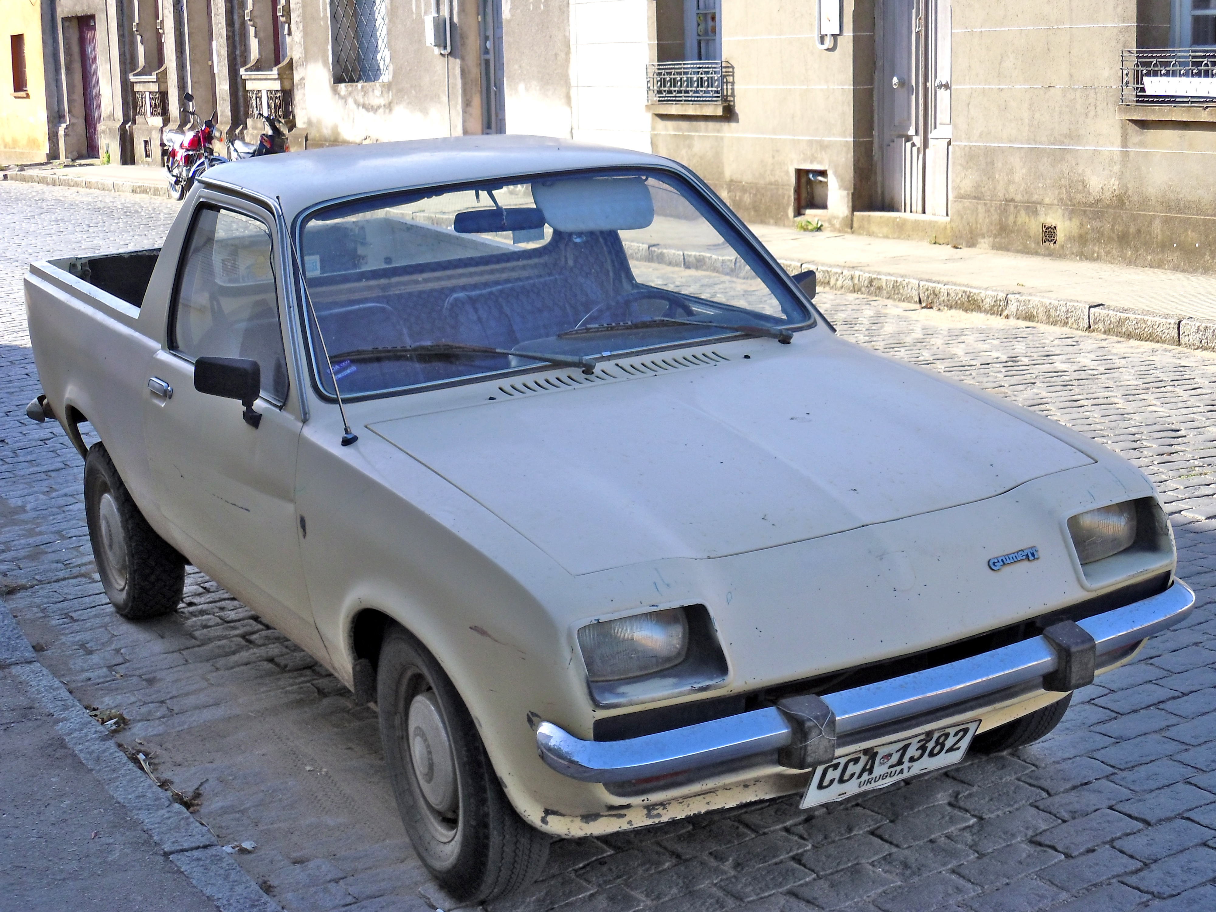 Grumett (1960-1982)